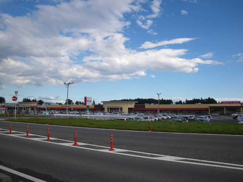 AEON SuperCenter Nasushiobara Shop. Nasushiobara, Tochigi, Japan.